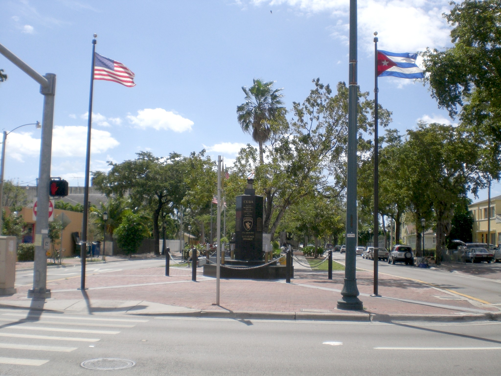 Digital photo taken by Marc Averette. Cuban Memorial Plaza (SW 13th Avenue) as seen from Calle Ocho (SW 8th Street) in Miami, Florida. 3/7/2007.